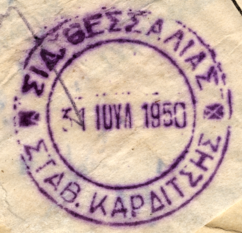 GREECE: Date stamp of Karditsa Station of Thessaly Railways.